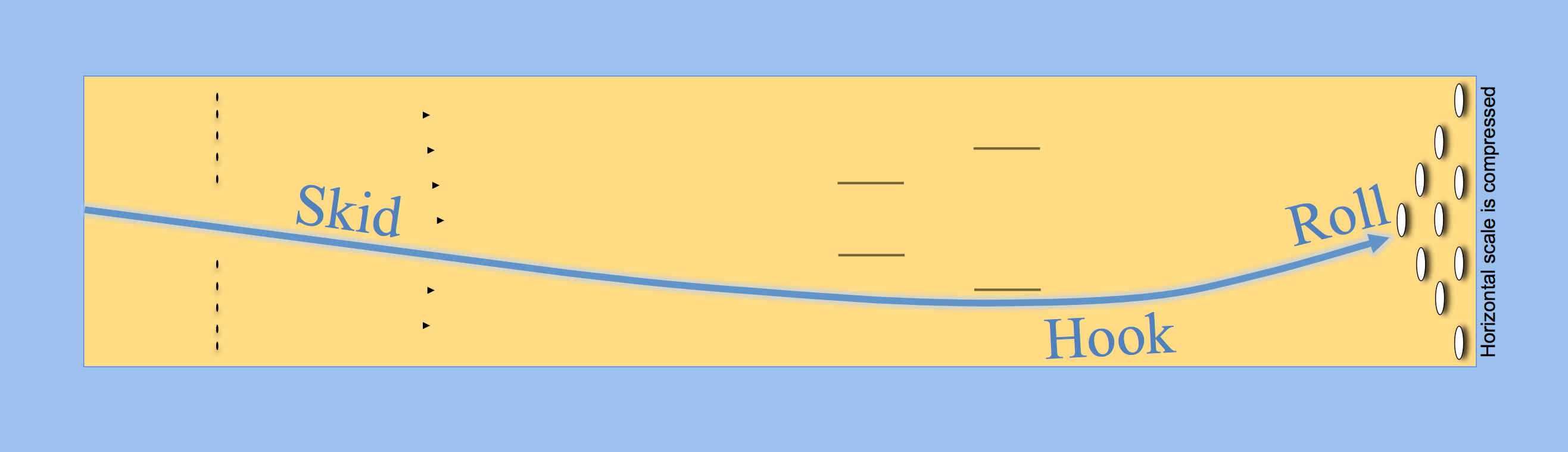 Diagram showing skid, hook and roll phases of a bowling ball's path down the lane. Horizontal scale is compressed